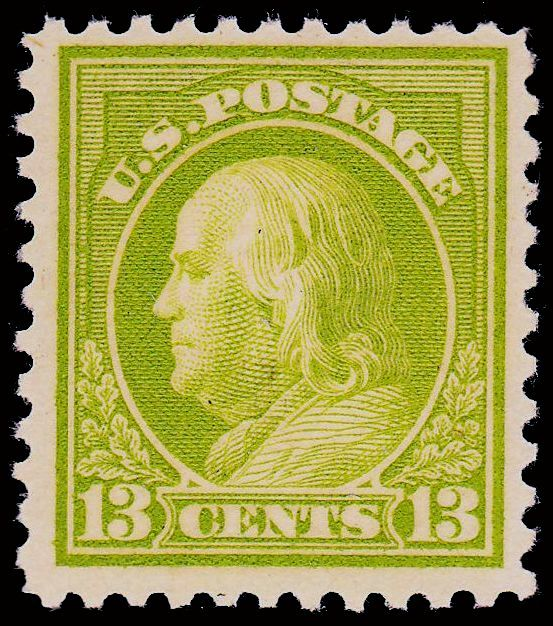 US Postage stamp, Benjamin Franklin, issue of 1919, 13c, yellow-green